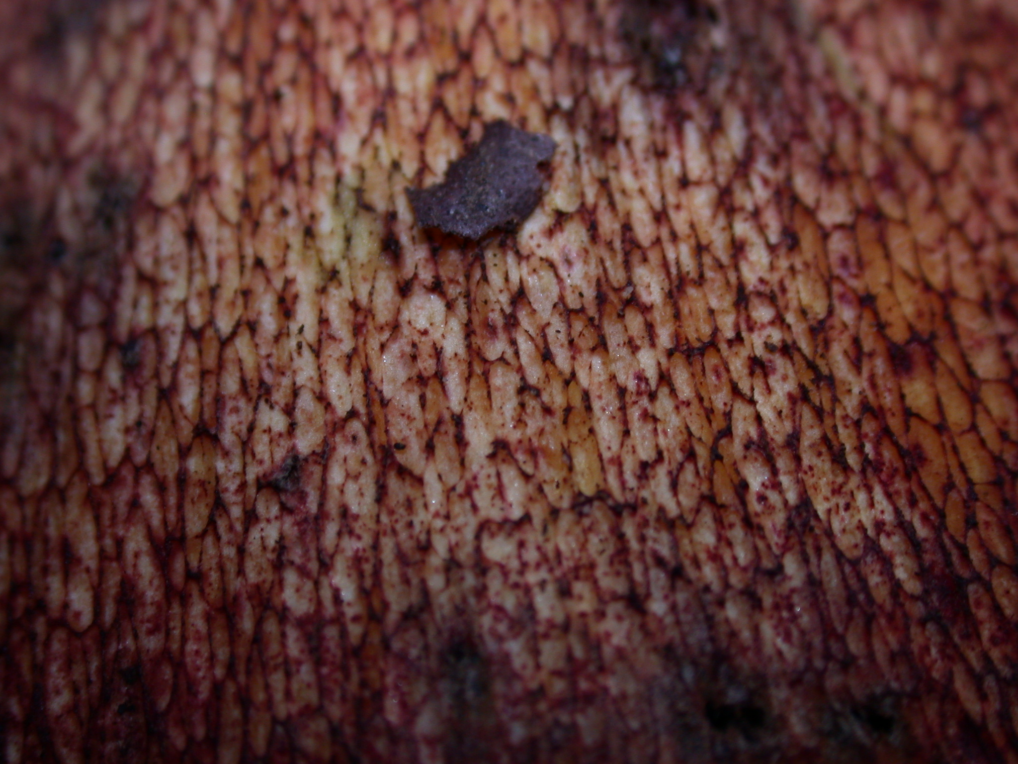 The reticulate stipe of the mushroom Boletus pulcherrimus Thiers & Halling. Specimen found in Salt Point State Park, Sonoma Co., California, USA.